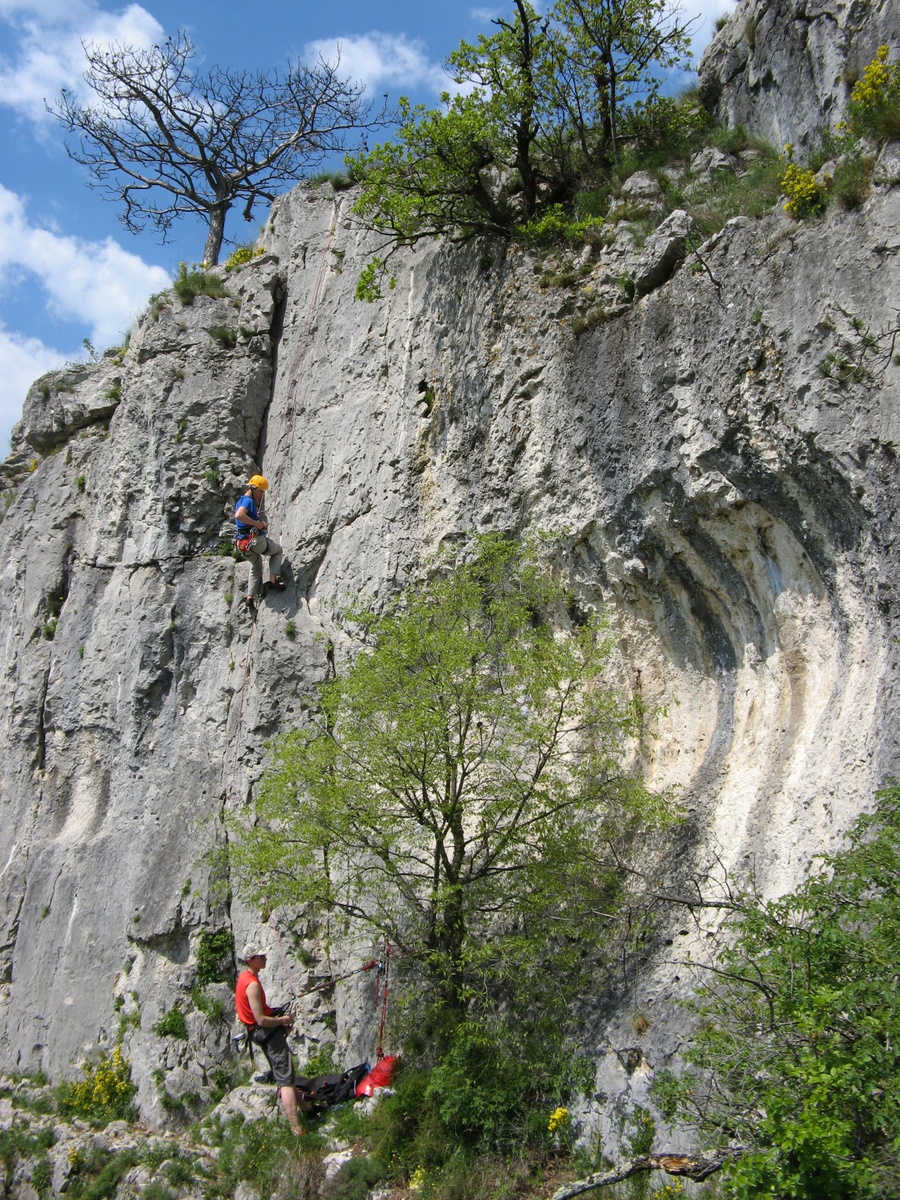 Crni Kal